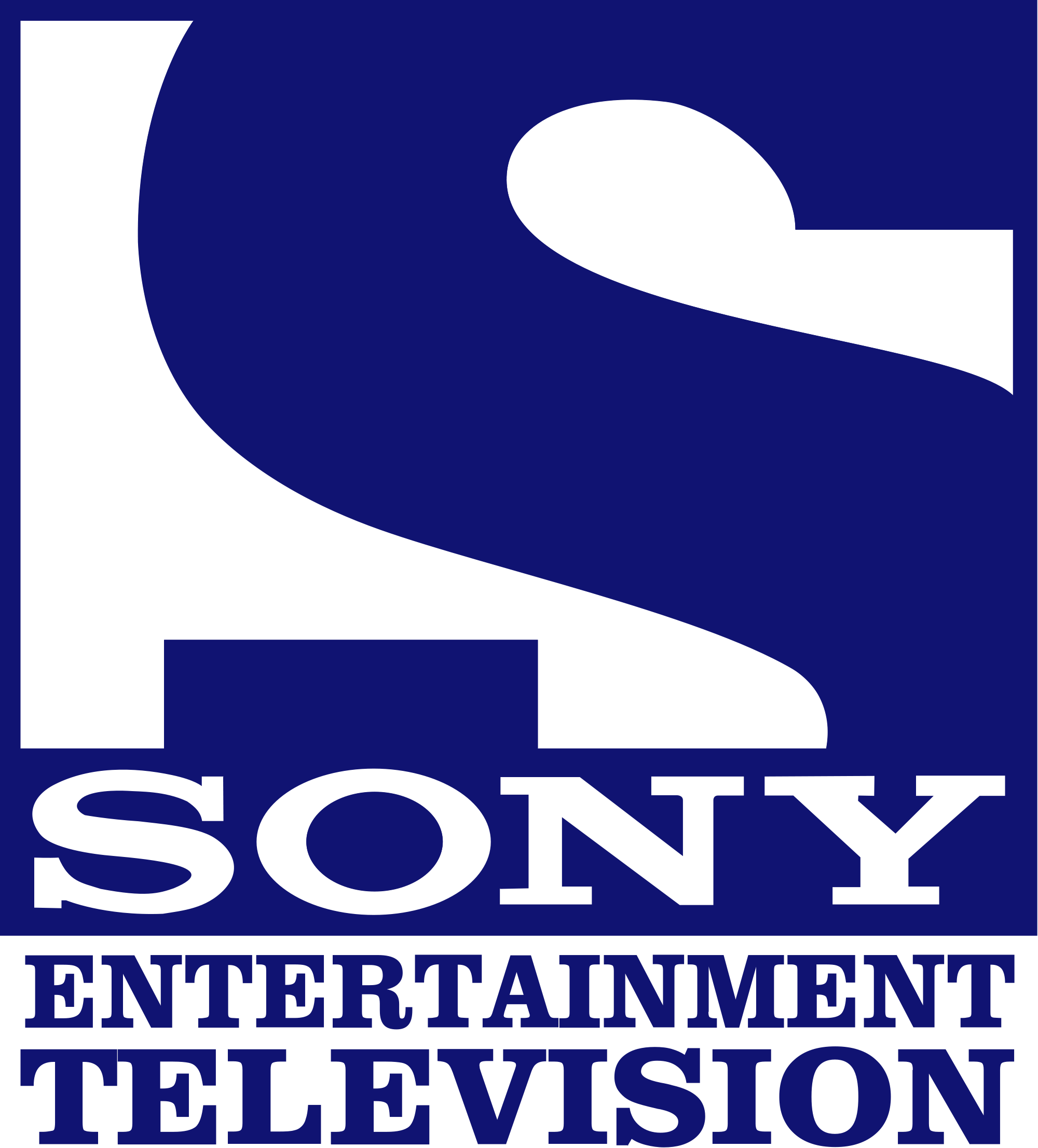 Sony Entertainment Television standard logo.